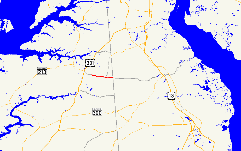 Map of Maryland Route 330